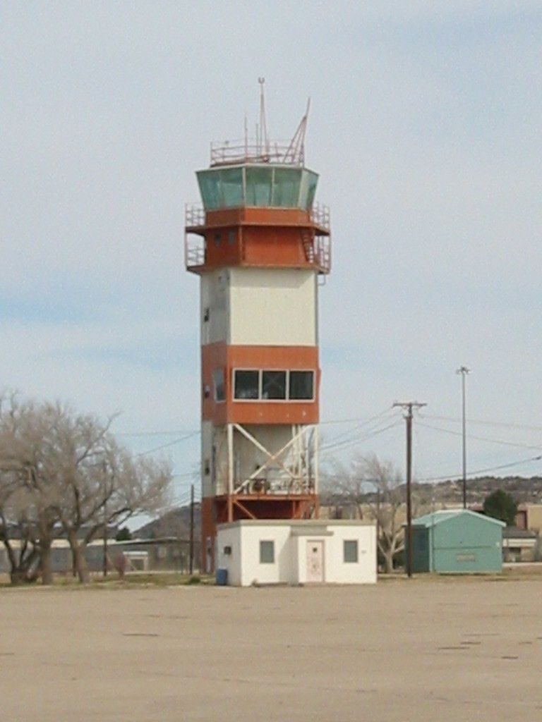 Control Tower at the former Webb Air Force Base